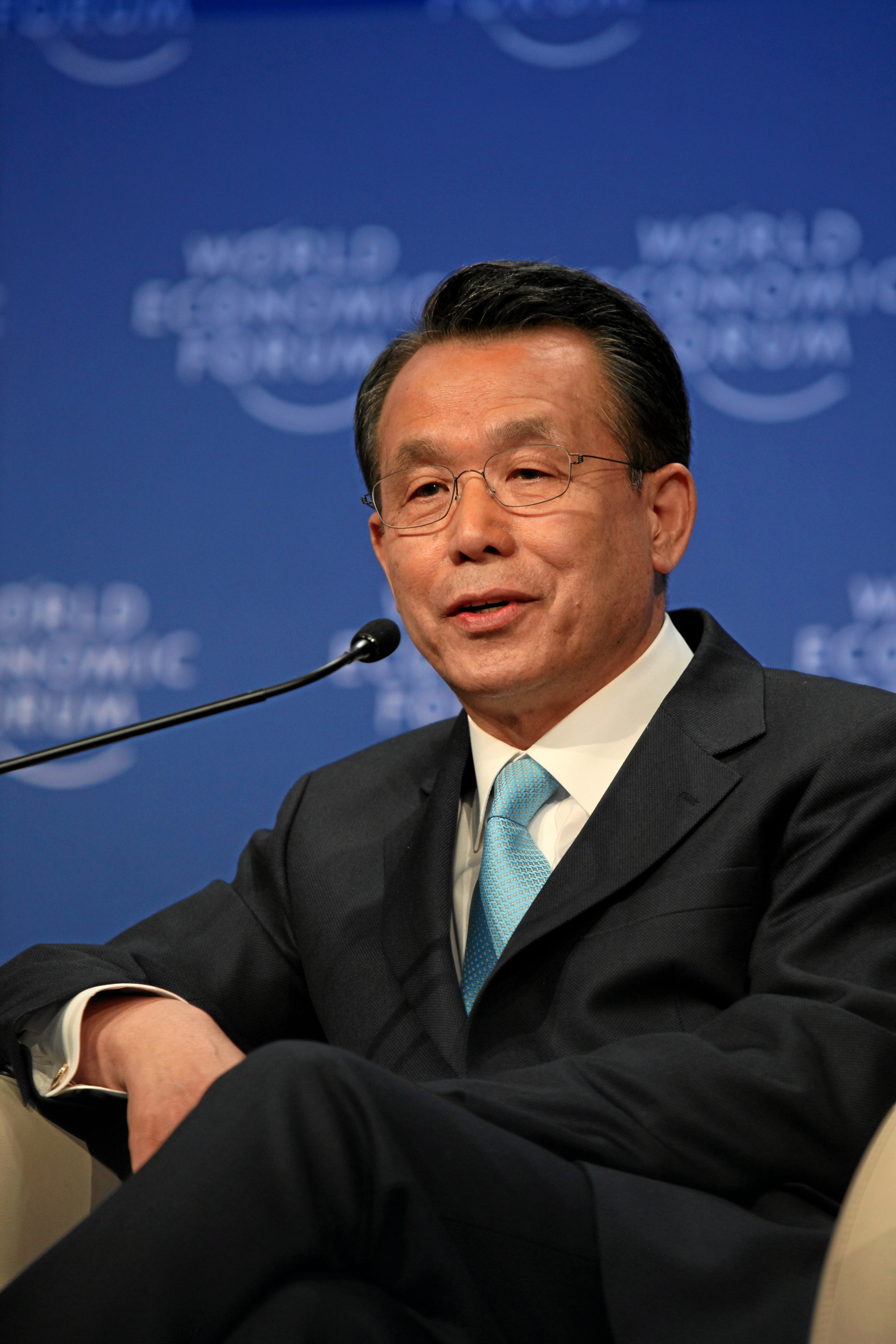 Han Seung-soo, Prime Minister of the Republic of Korea, captured at the 'Reviving Economic Growth' session at the Annual Meeting 2009 of the World Economic Forum in Davos, Switzerland, January 30, 2009.